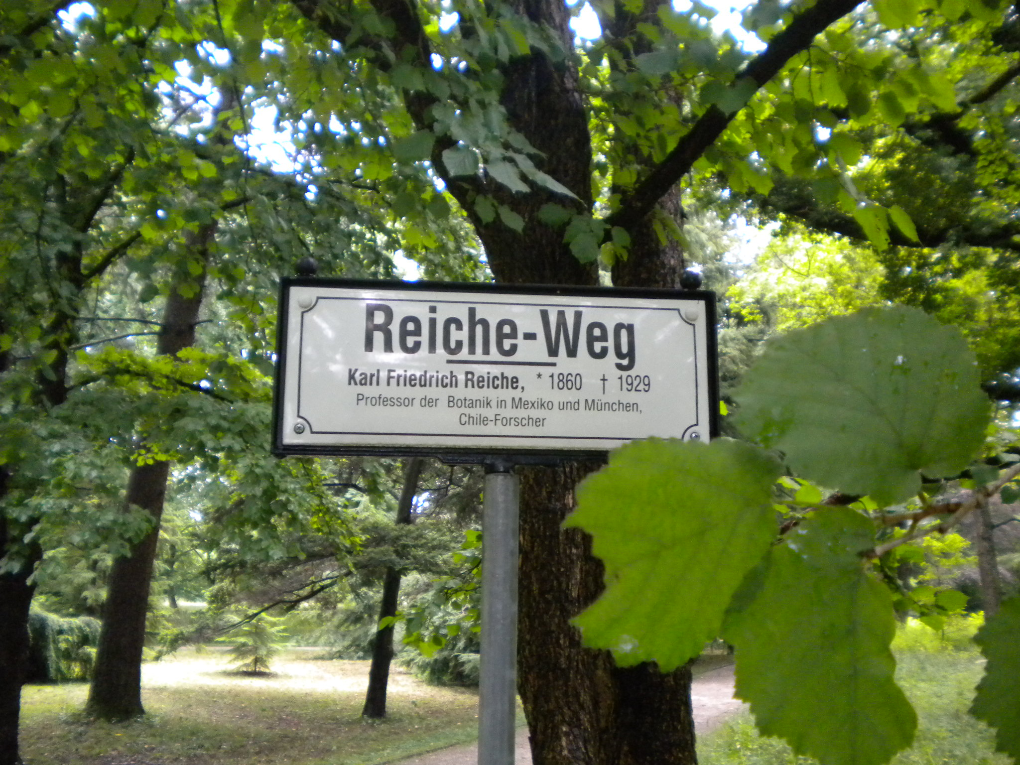 Name of a way in Nymphenberg Munich Botanical Garden